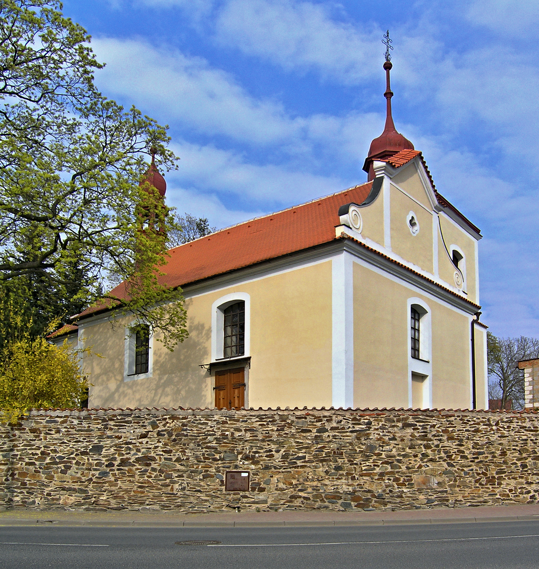 Saint Andrew Church in Kolovraty, Prague